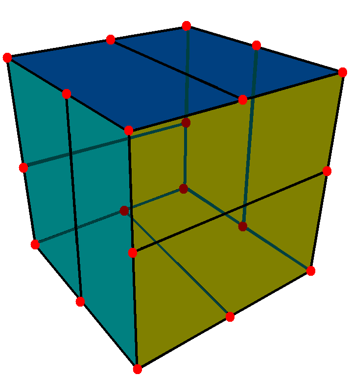 Pyritohedron in cubic geometry